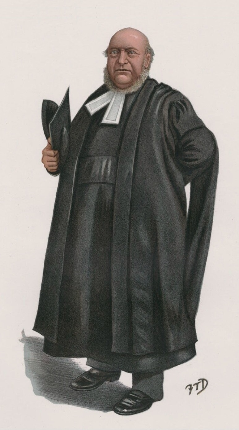 Caricature of Thomas Fowler (1832-1904), Vice-Chancellor of Oxford University (1899-1901). Caption reads "Corpus".